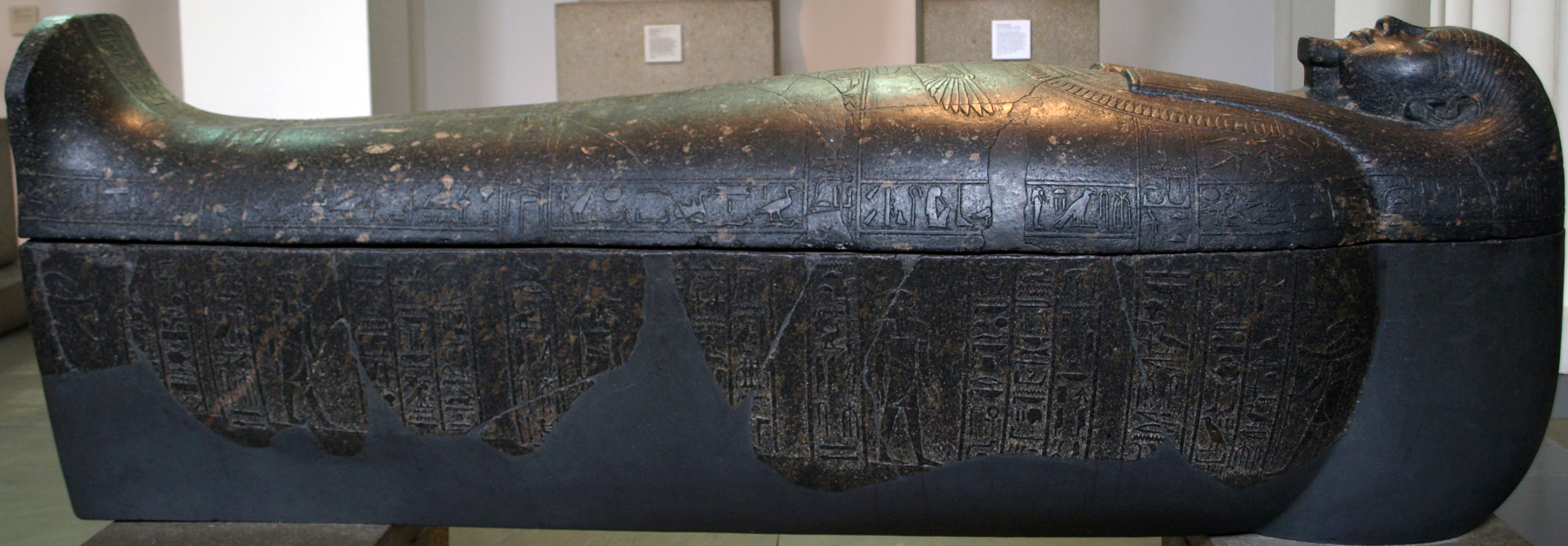 Black granite sarcophagus of the vizier Merymose, circa 1350 BC, originally from Thebes. EA 1001.